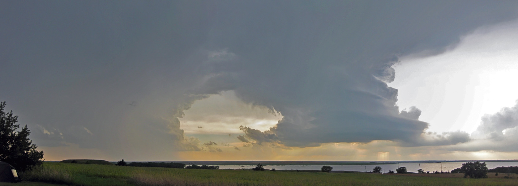 Derivative of File:Storm with developing storm.jpg; edited contrast and midtones to lessen overexposure.